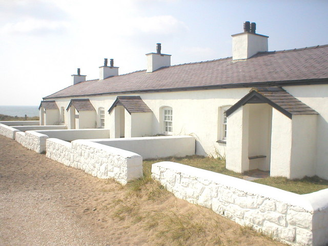 Pilots Cottages Just painted for the Summer Season.